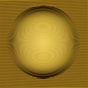 Mervyn Williams Solar Flare 2011 1200 x 1200mm Mixed Media on Canvas